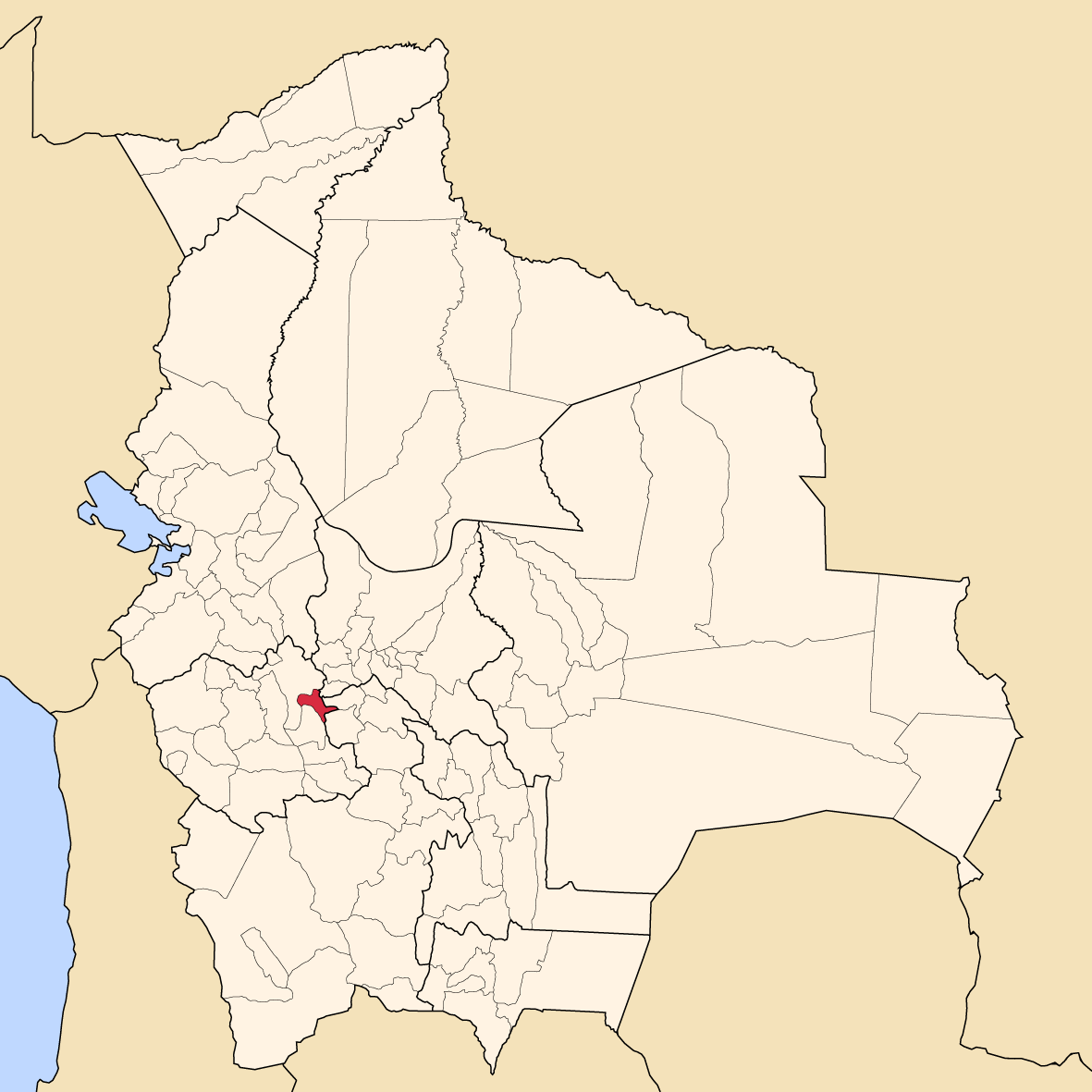 Map of Bolivia showing Pantaleón Dalence province, Oruro